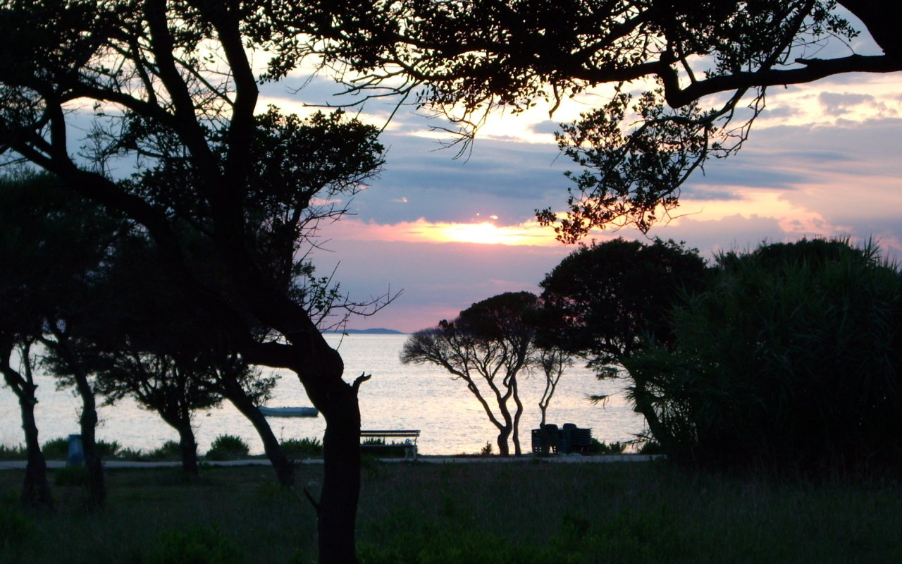 Gajac, Pag island, Croatia Copyright 2006 Michael R. Davis, User:Mrdvt92, Pentax Optio, provided to Wikipedia under GFDL, Picture taken in Gajac, Pag, Croatia, 28 Aug 2006.